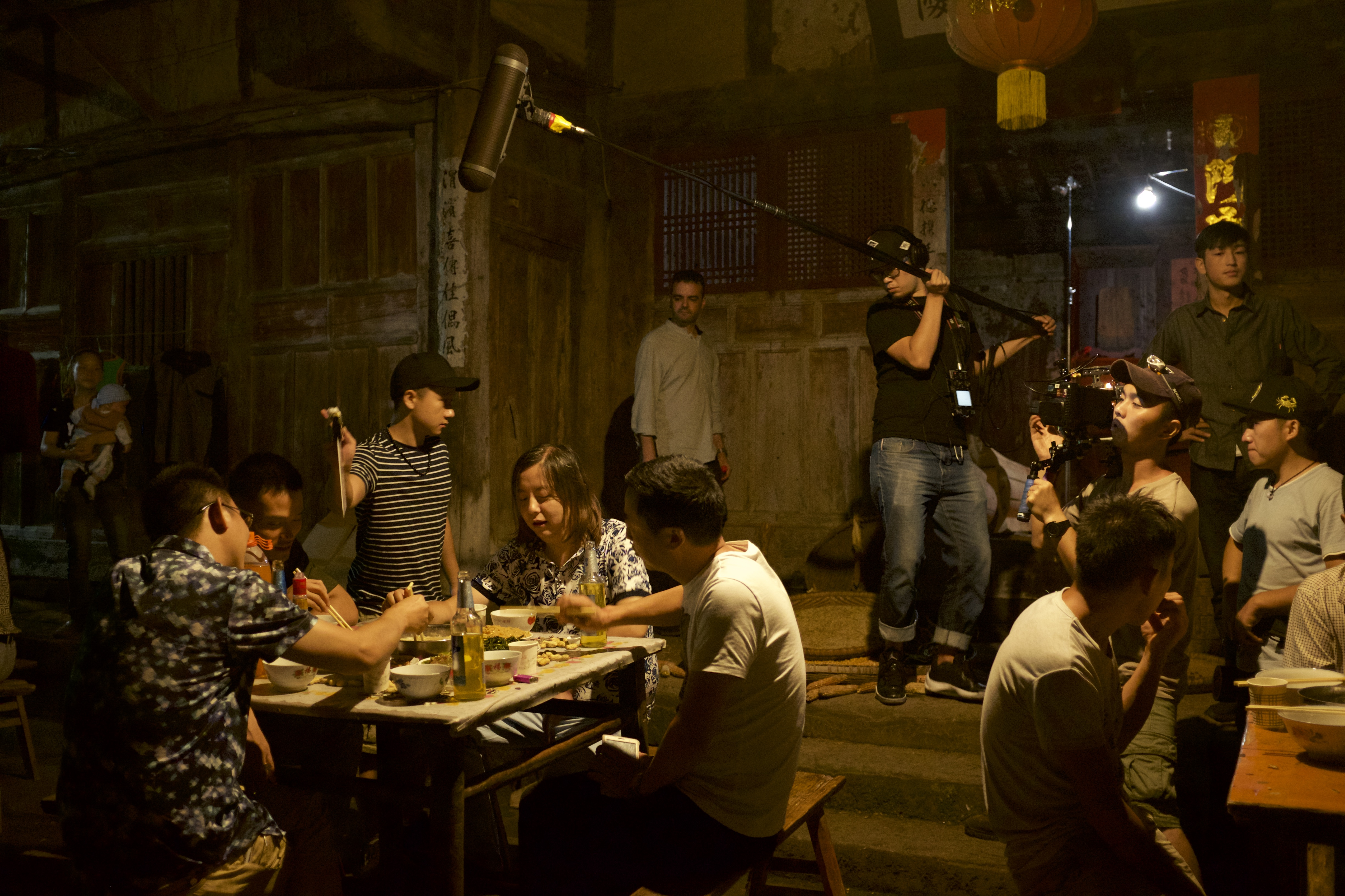 Sunken Plum (Dir. Roberto F. Canuto & Xu Xiaoxi), Trilogy Invisible Chengdu. Behind the Scene picture with part of the cast and crew.